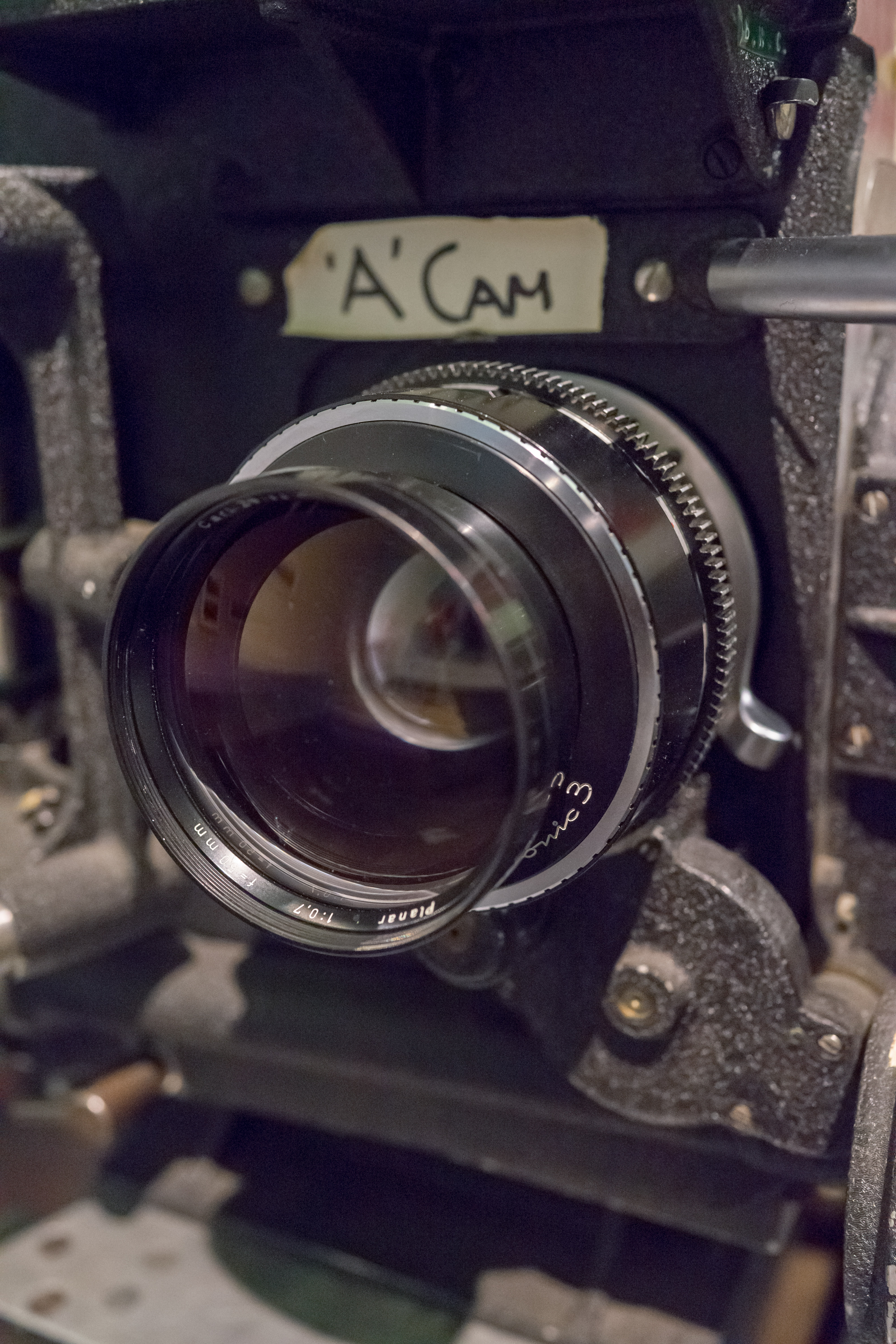 One of Stanley Kubrick's Zeiss Planar 50mm F0.7 lenses used for shooting Barry Lyndon. Lens displayed as part of the Stanley Kubrick exhibition in San Francisco attached to camera used for the film